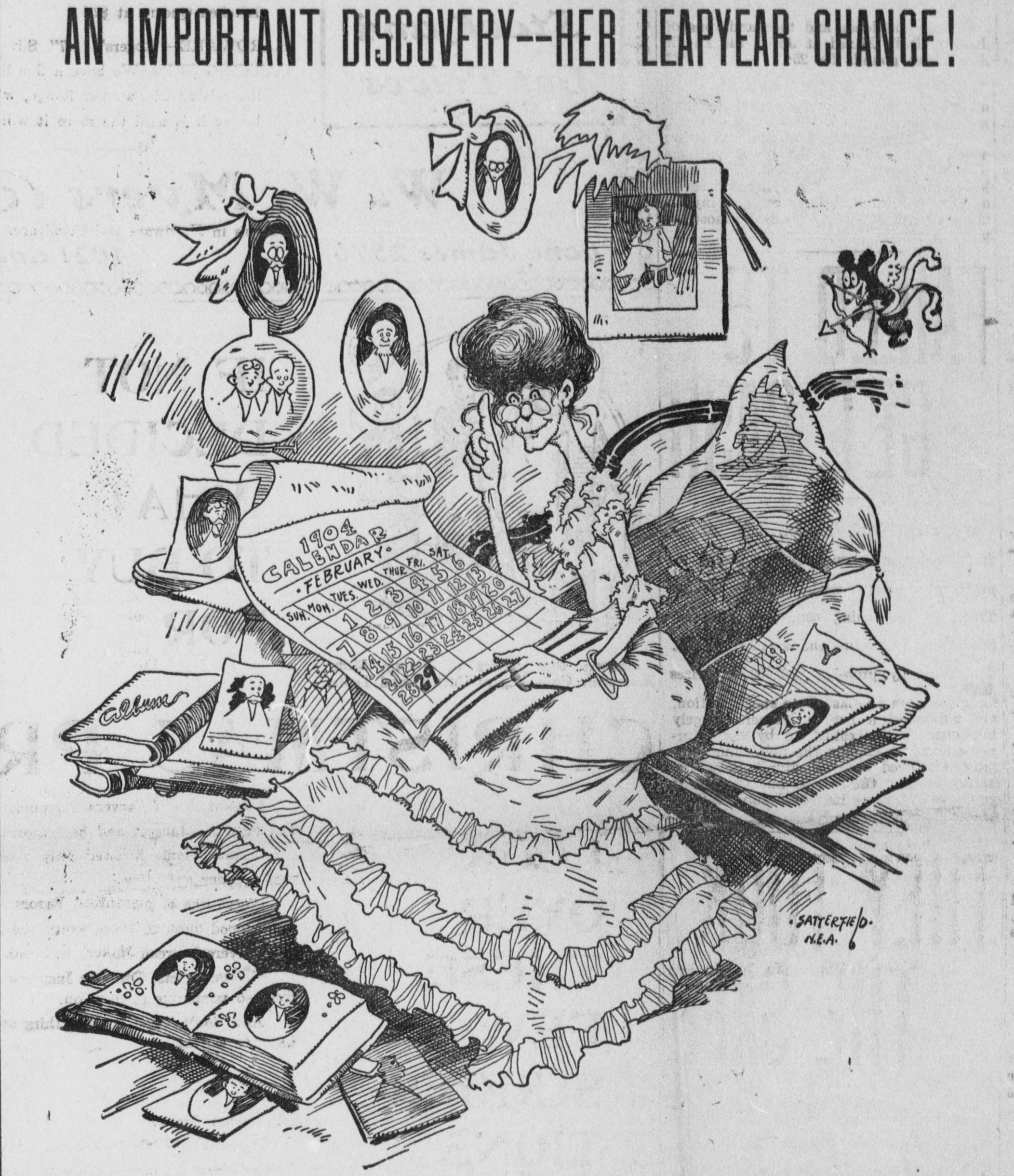 While examining the calendar for the upcoming year of 1904, a spinster is reminded of leap year, and of the tradition which states that women can propose marriage on February 29th.